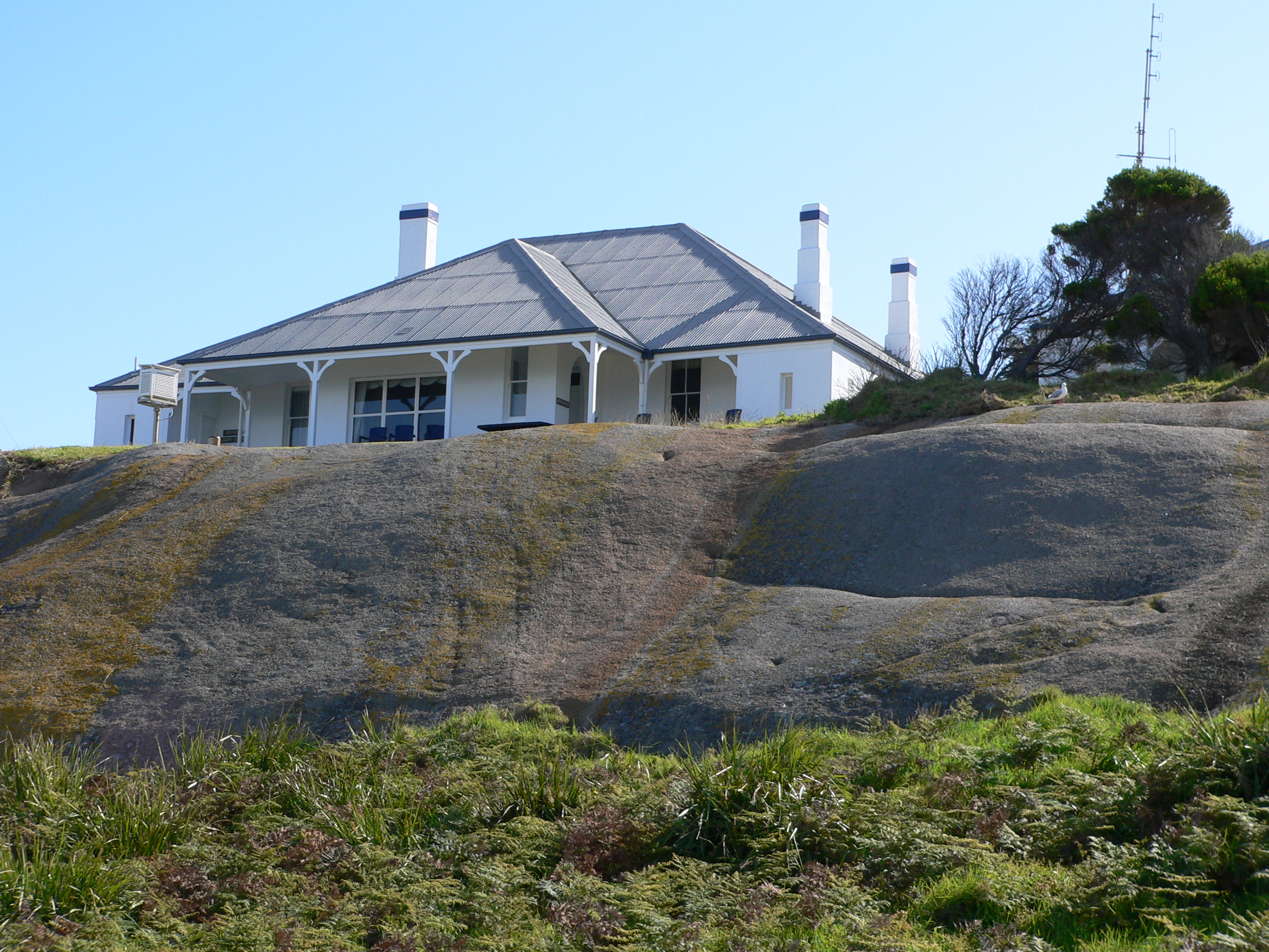 Montague island main lighthouse keepers cottage, view from the east